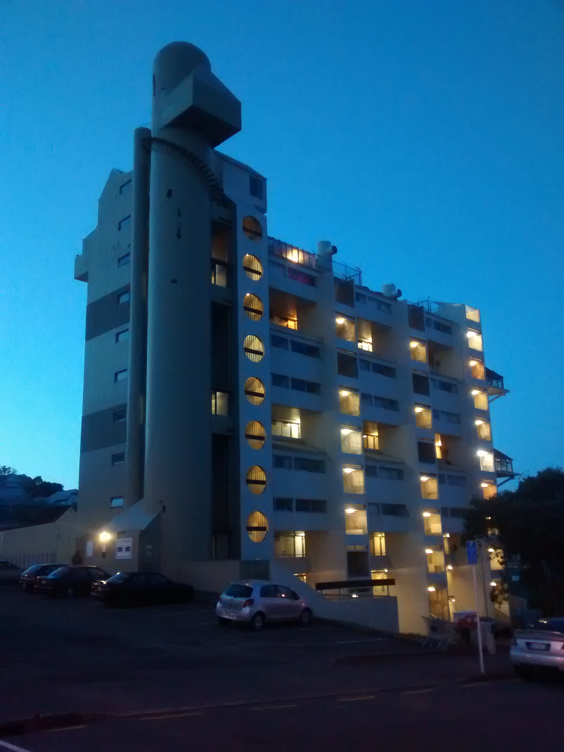 Arlington Flats in Mount Cook, Wellington at night